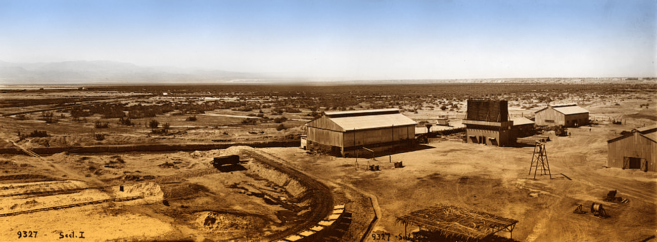 Panorama in two sections taken from the Palestine Potash factory.